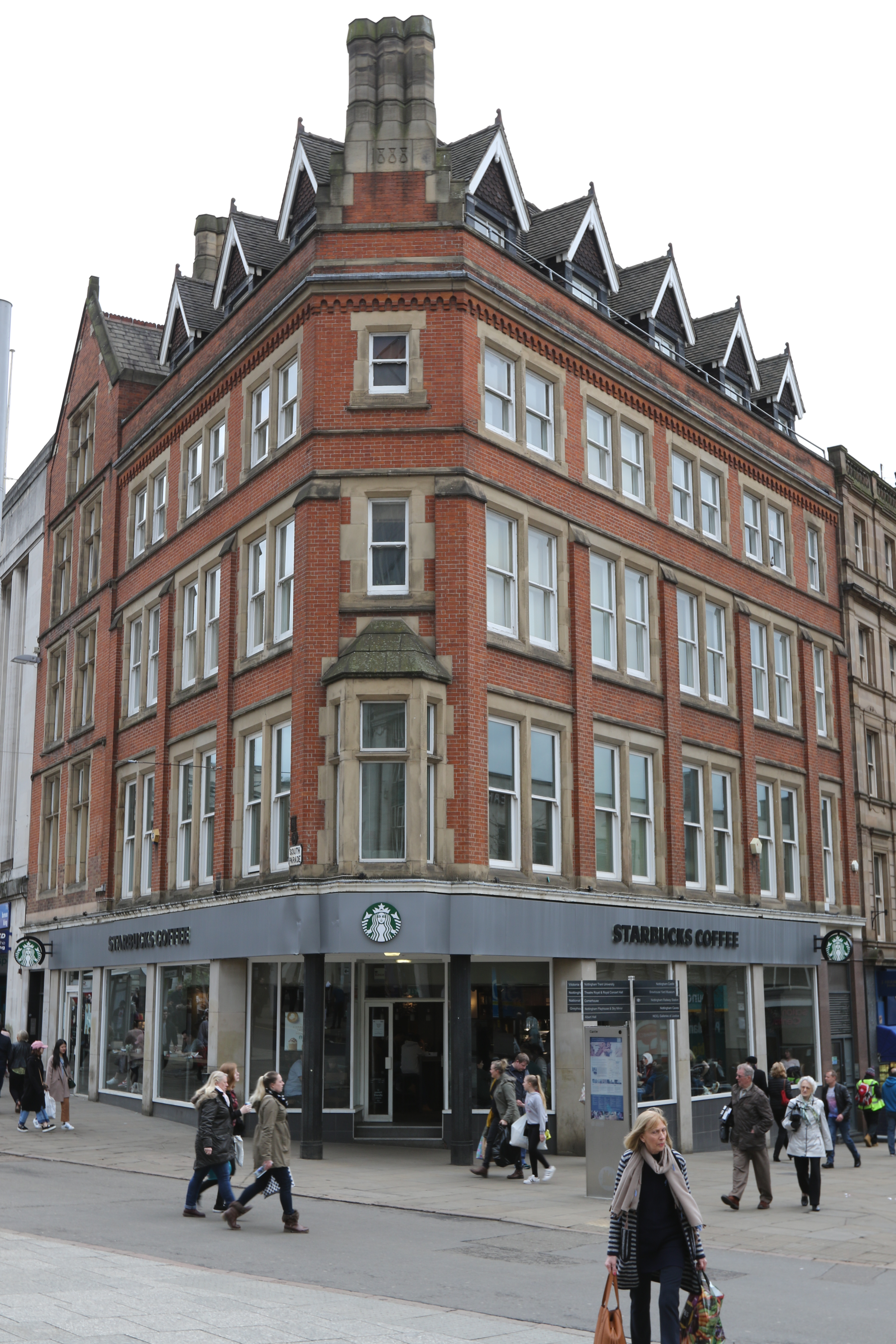 At the junction of South Parade and Wheeler Gate. By Evans and Jolley 1888